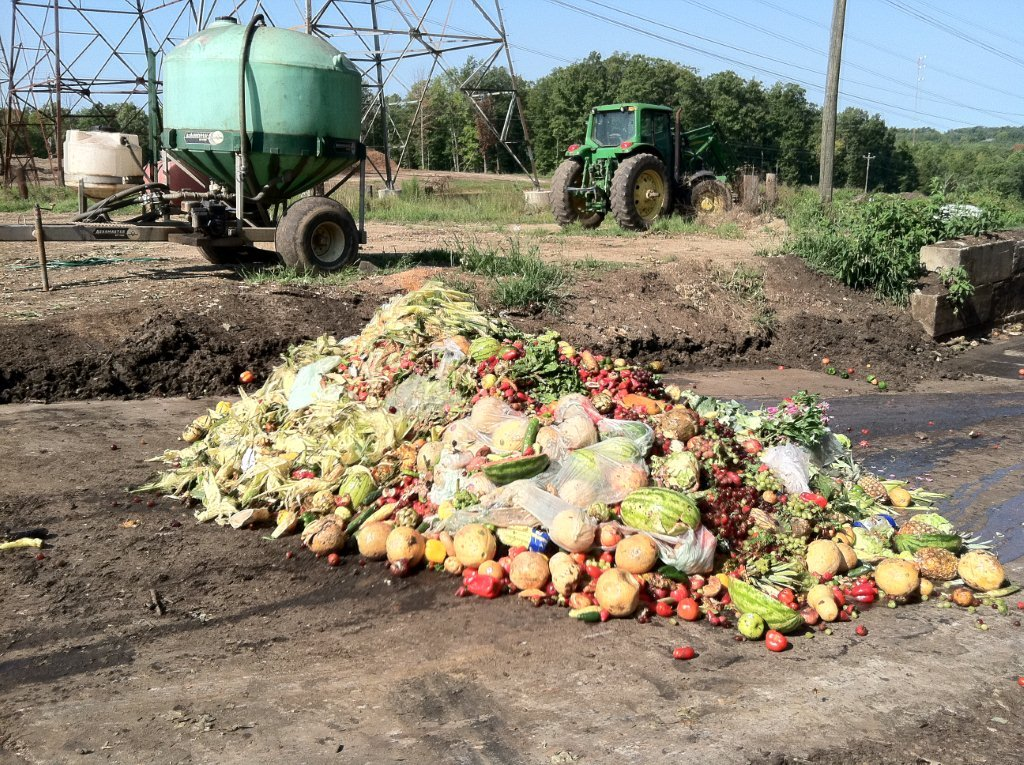 America Recycles Day 2012 was focused on food waste. Less often on our minds, but on average, we each waste about half of a pound of food each day. Each year on November 15, America Recycles Day, we reflect on our waste in the United States and act to better protect our environment. This year, EPA’s Food Recovery Challenge kicked off events across the country to highlight different ways we can reduce wasted food - from source reduction and donation, to simply composting. More about the Food Recovery Challenge Reduce waste at home! America Recycles Day - A Presidential Proclaimation